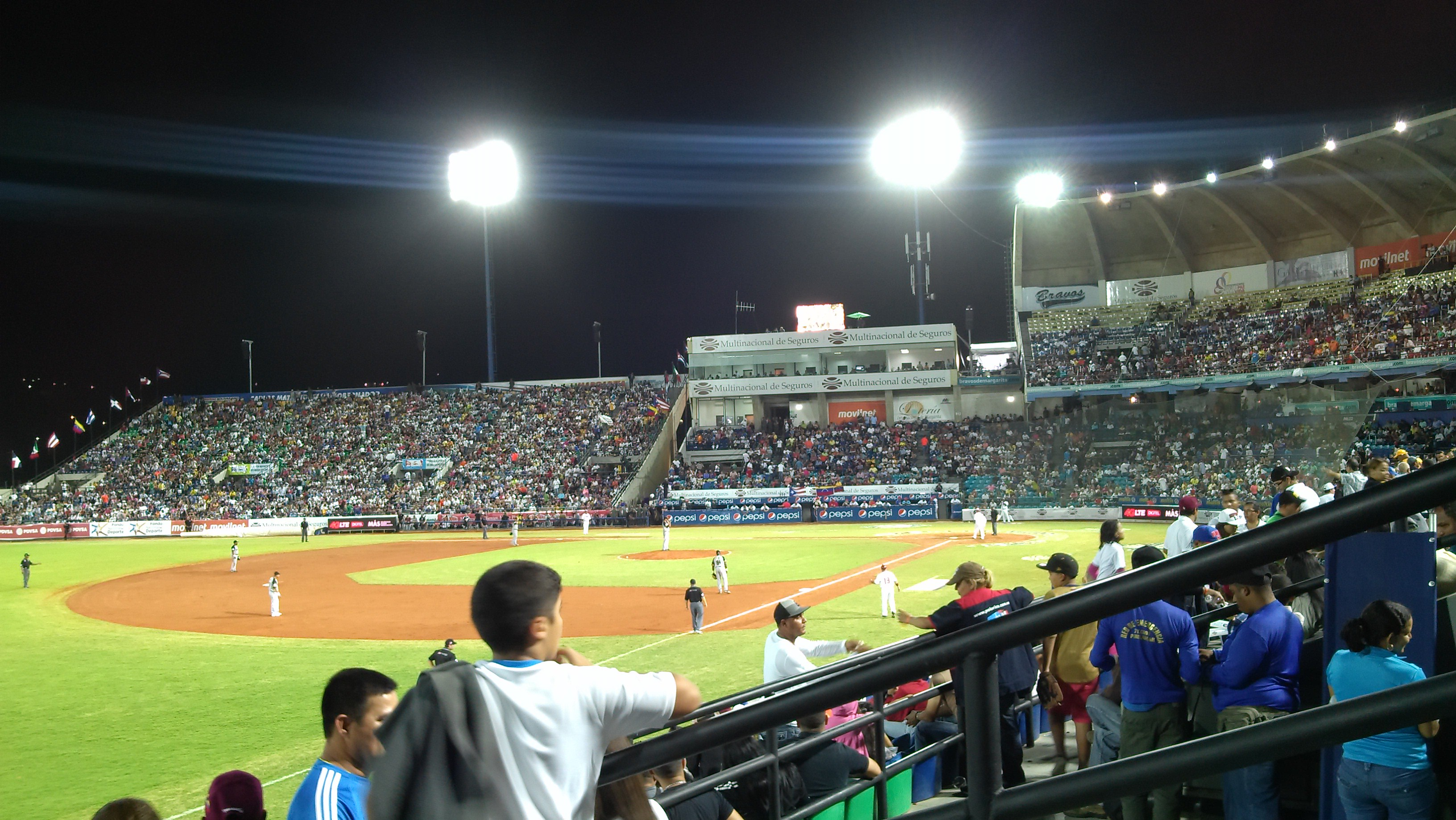 A fresh night to enjoy a beseball game in Margarita Island for the average "margariteño"